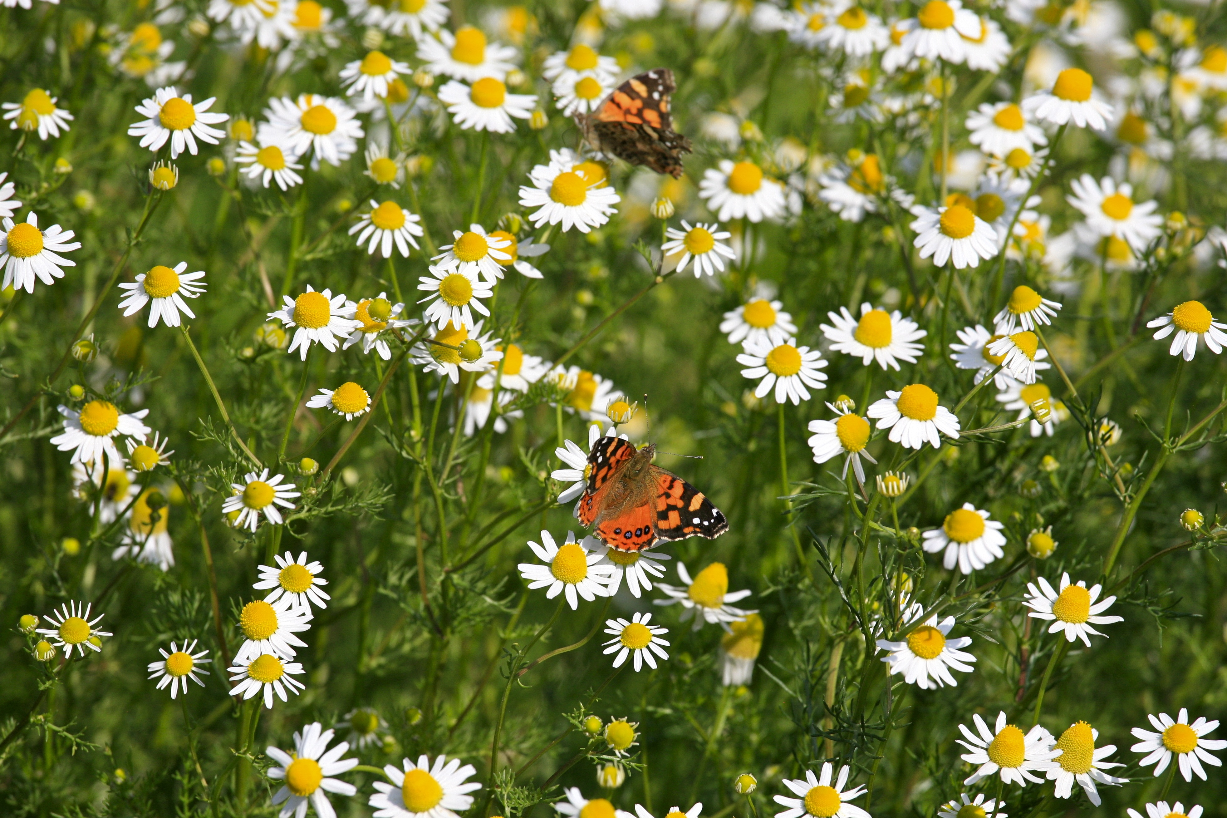 Chamomile, Matricaria recutita